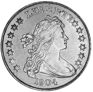 1804 Silver Dollar - Class II - US Mint Specimen Obverse.